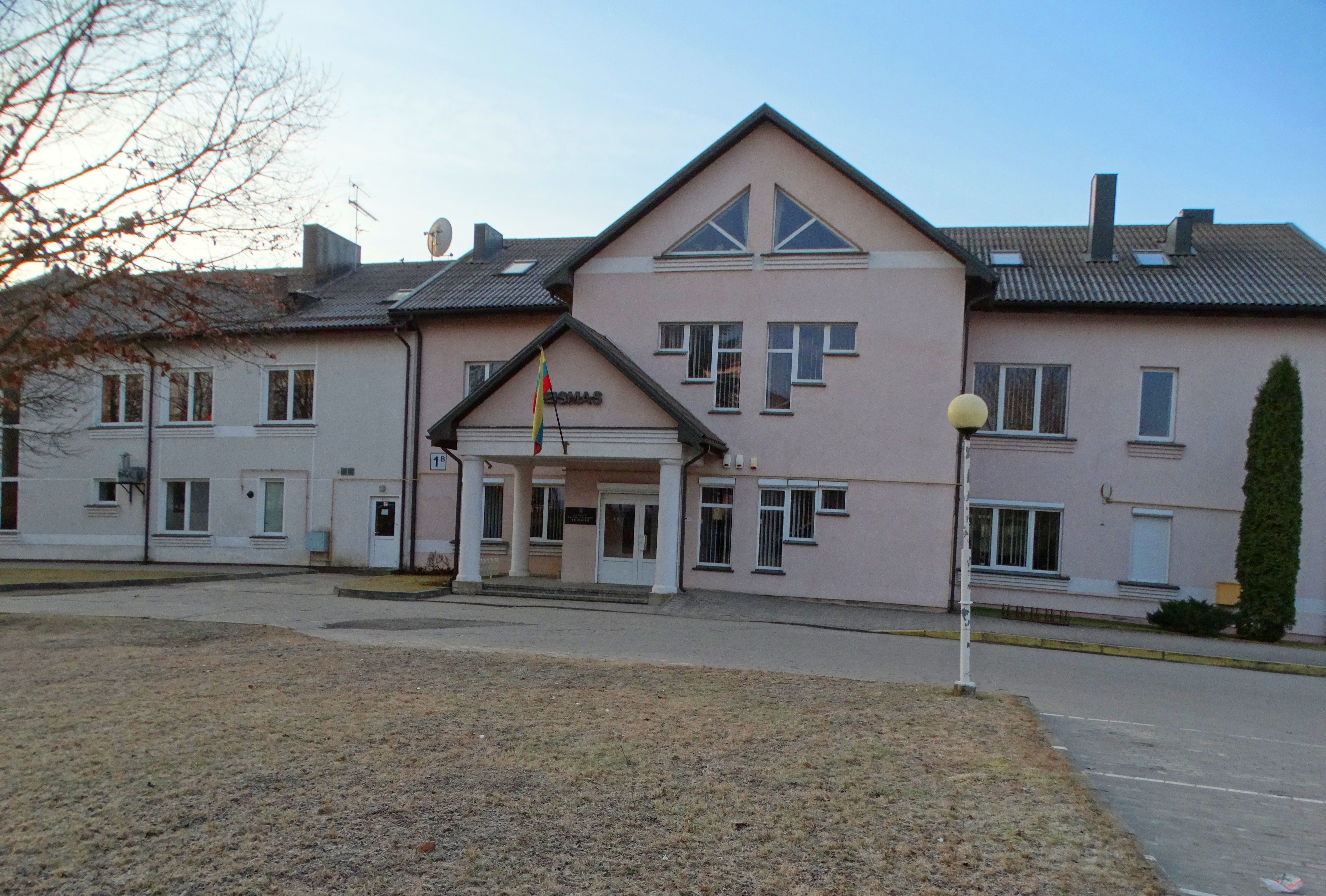 Court, Naujoji Akmenė, Lithuania